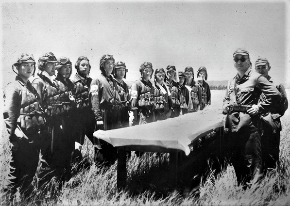 Daisanryoukotai in Hsinchu Airport